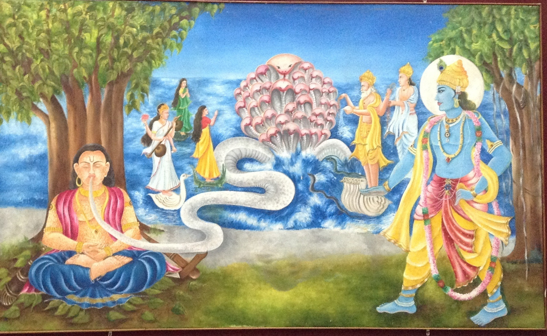 krishna museum